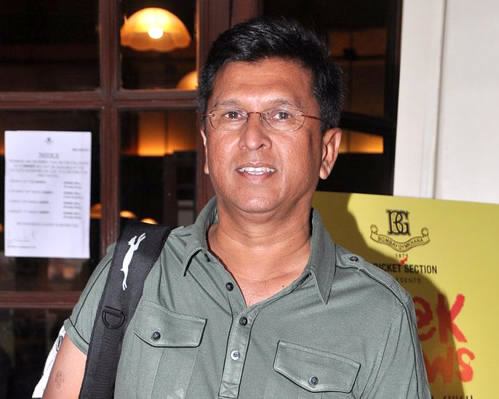 Kiran More at Yuvraj Singh unveils Shailendra Singh's book 'F?@k Knows'